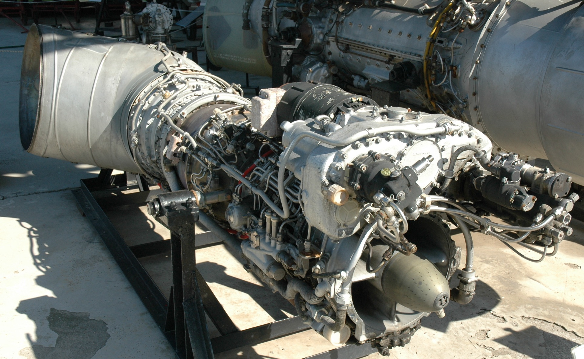 Isotov TV2-117A turboshaft engine (displayed at the Hungarian Aviation Museum in Szolnok)